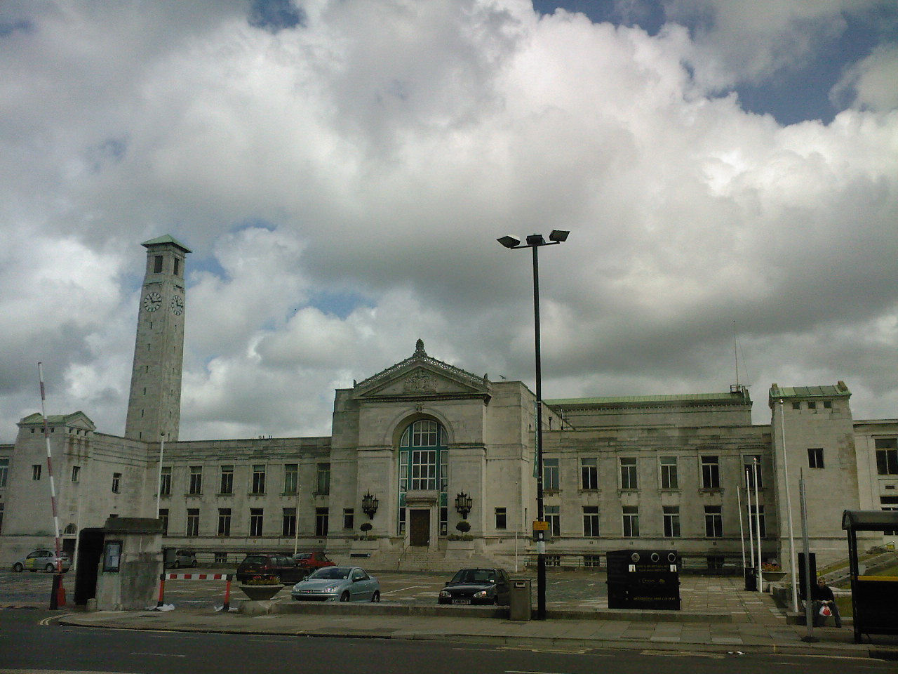 Civic Center in Southampton (England)